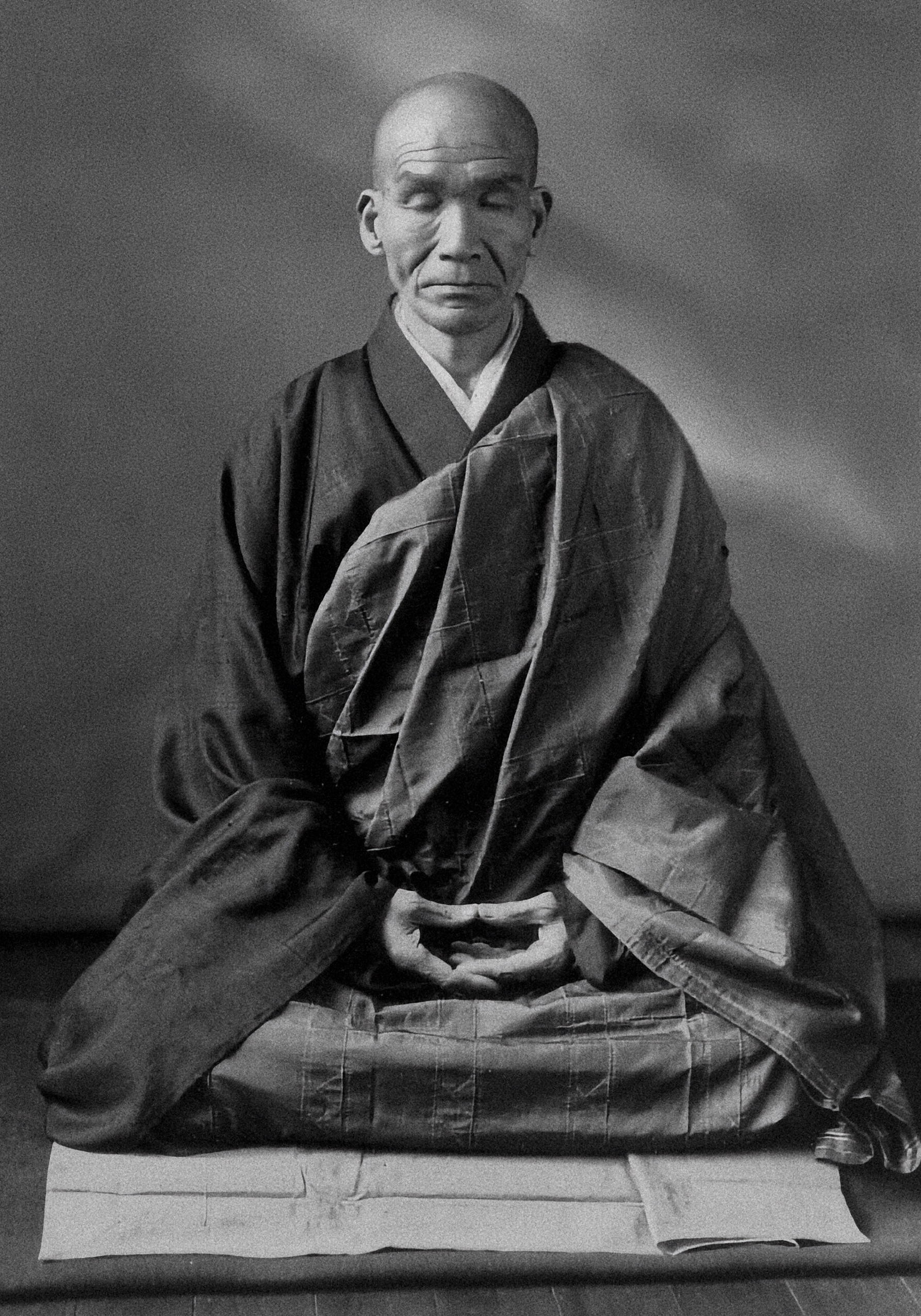 An image of Kodo Sawaki sitting in zazen meditation